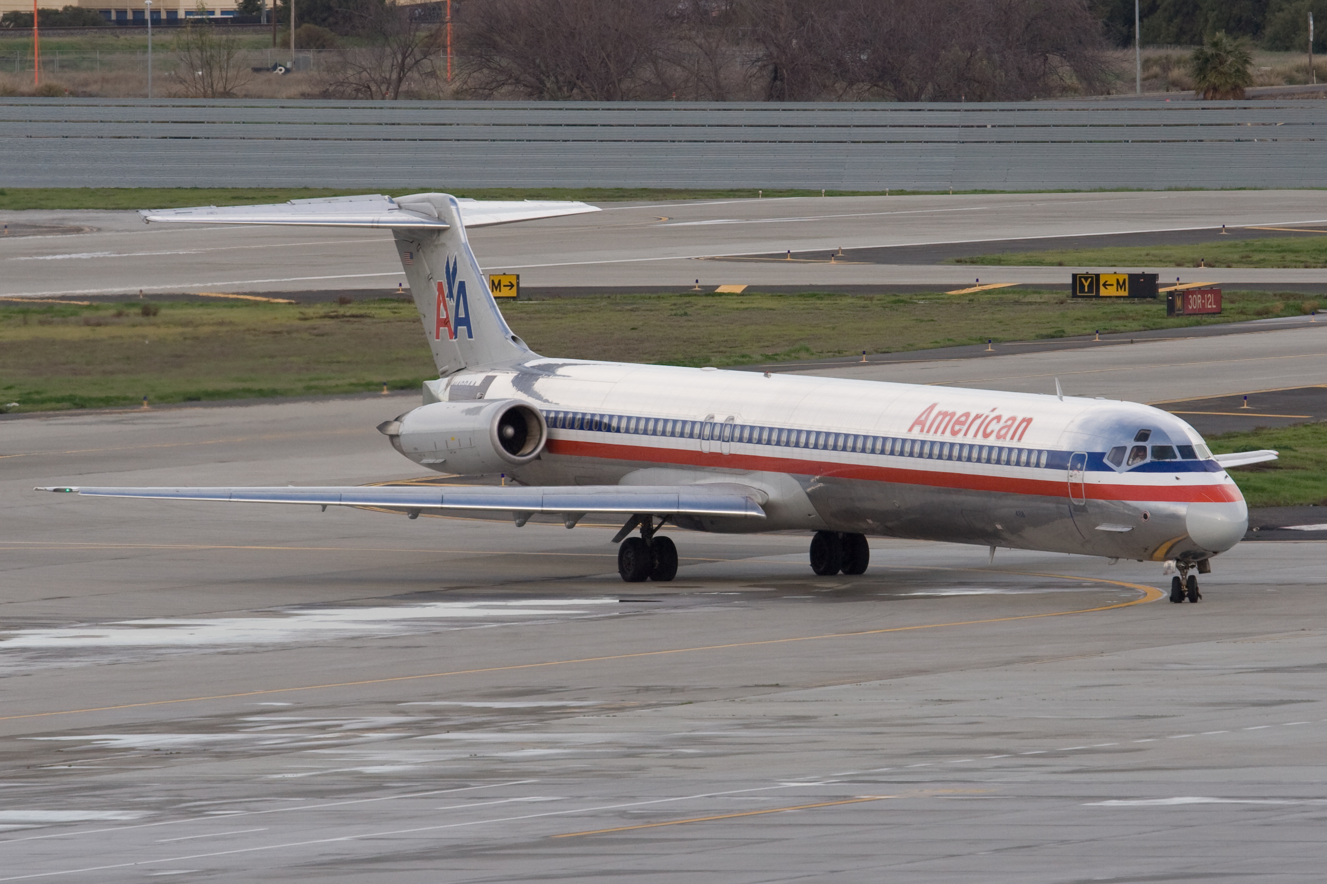 The Centerline